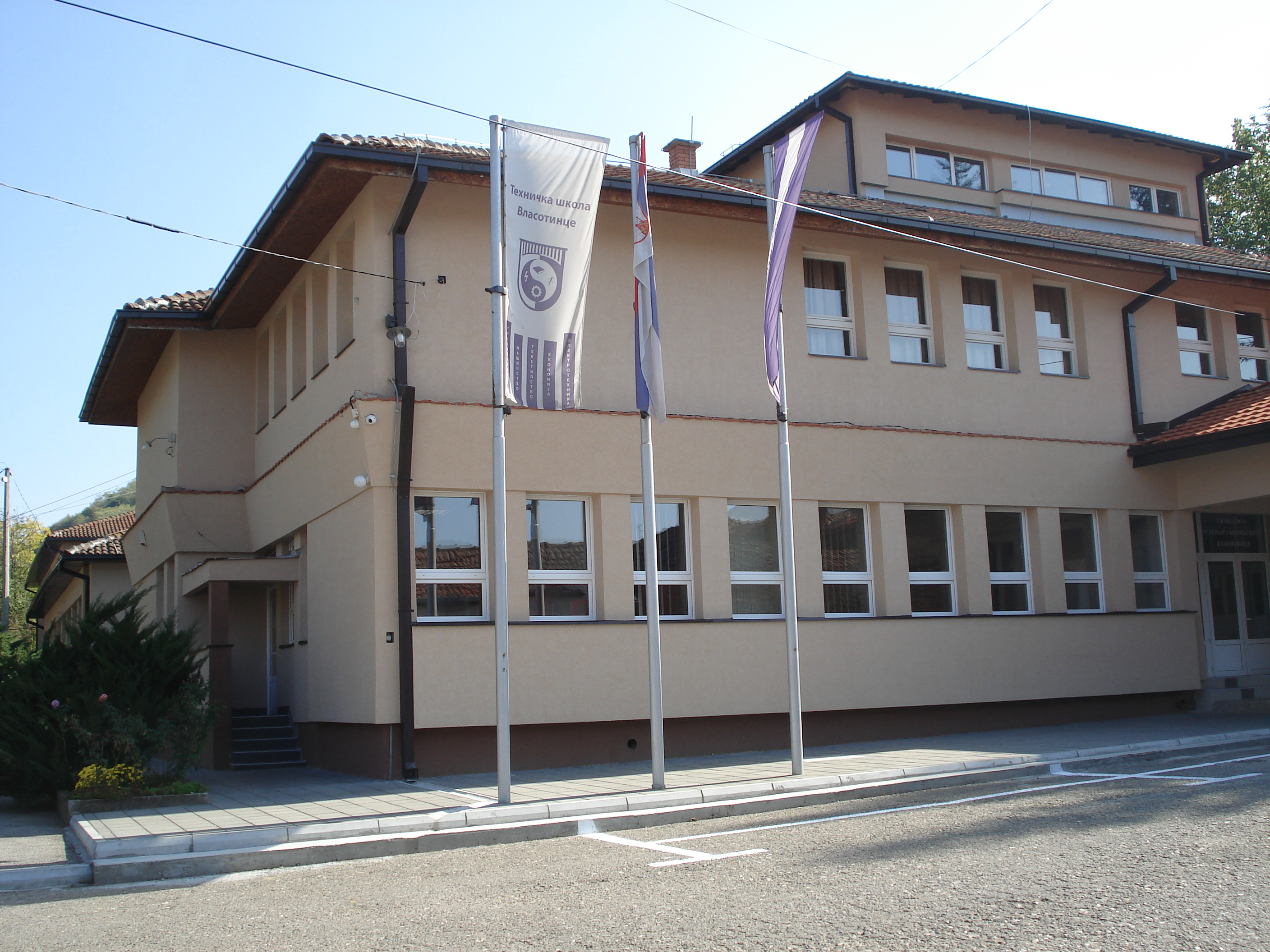 Gimnazija „Stevan Jakovljevic", 21